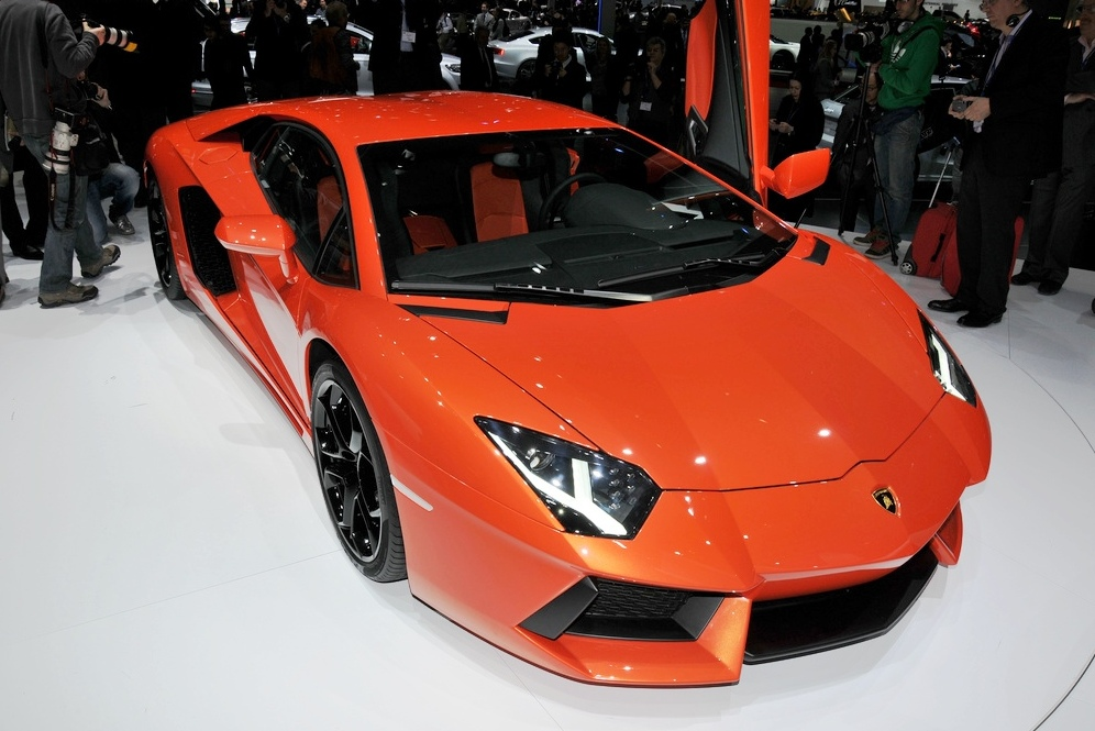 The Lamborghini Aventador was revealed at the 2011 Geneva Motor Show